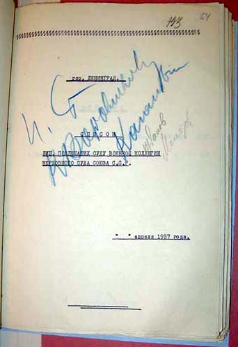 City of Leningrad. List of persons to be tried by the Military Collegium of the Supreme Court of the Union of the SSR. April 1937. Approving signatures: Joseph Stalin, Kliment Voroshilov, Lazar Kaganovich, Andrei Zhdanov, Vyacheslav Molotov. The first page of a typical trial (de facto execution) list from the time of the Great Purge in the Soviet Union. This particular list, compiled by Senior Major of State Security Gendin, Deputy Chief of the 4th Department of the Main Directorate of State Security of the NKVD, itself contains 145 names in the first category (to be executed by firing squad), 50 names in the second category (to be imprisoned for 10 years) and one name in the third category (to be imprisoned for 5 to 8 years). Stored in the Archive of the President of the Russian Federation (АП РФ, оп.24, дело 409, лист 54). АП РФ, оп.24, дело 409, лист 54.